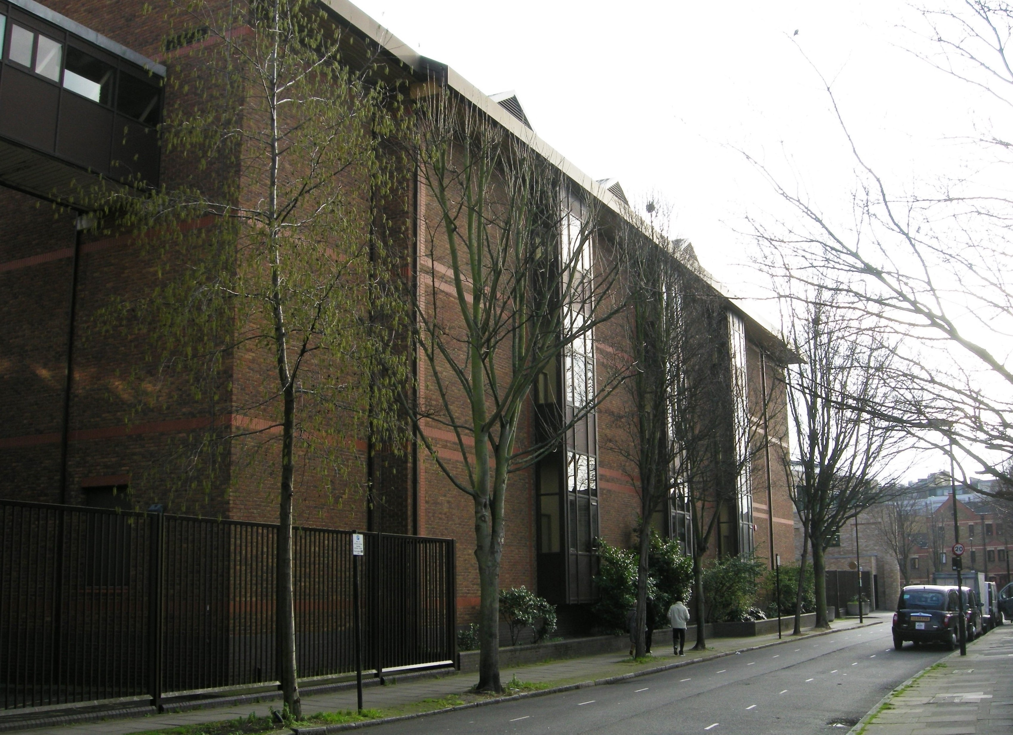 Repository block of London Metropolitan Archives, Northampton Road, Clerkenwell, London EC1, built 1990s.